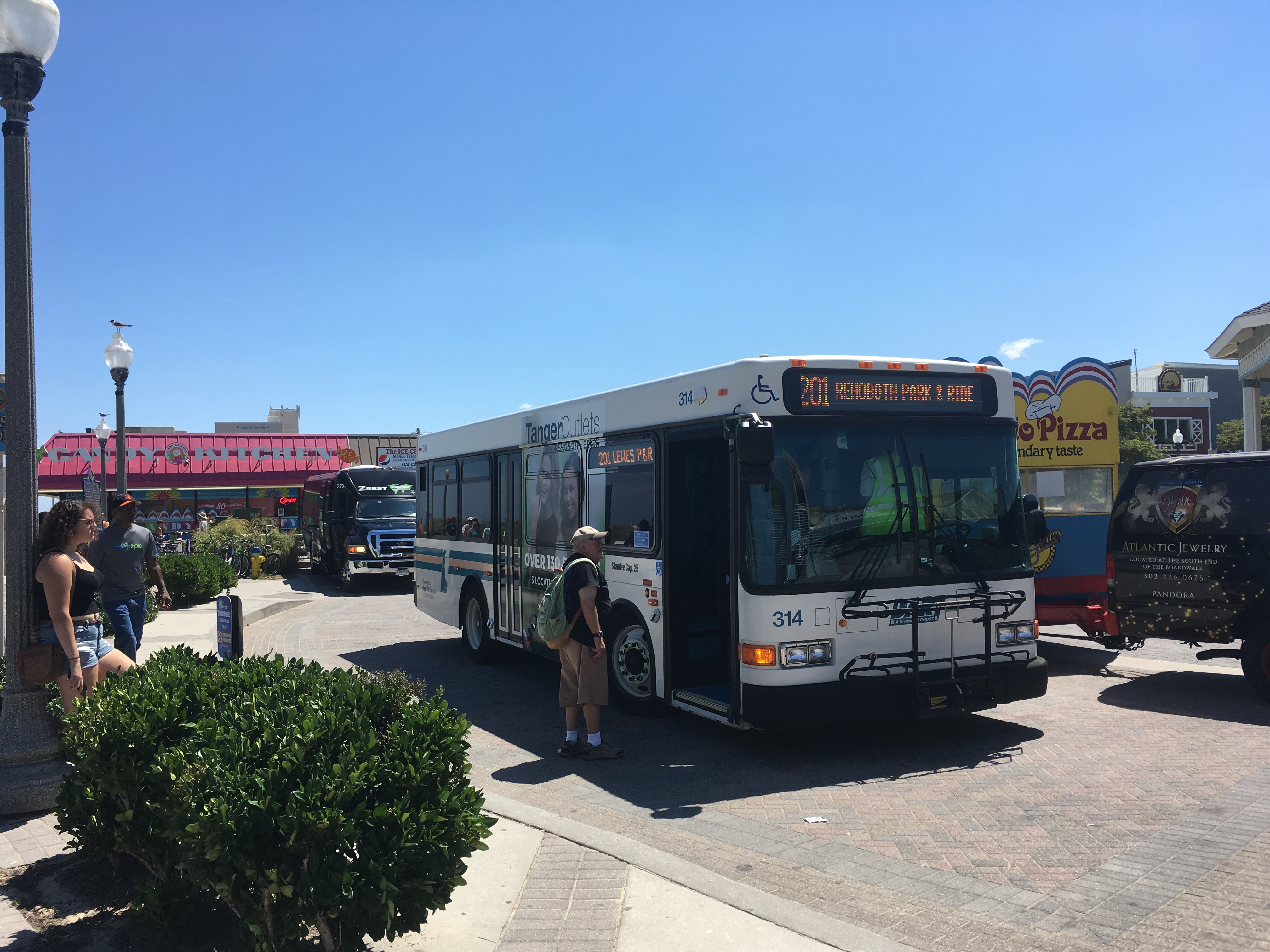 DART First State Gillig Advantage bus #314 on the Route 201 line along Rehoboth Avenue at the boardwalk in Rehoboth Beach, Delaware